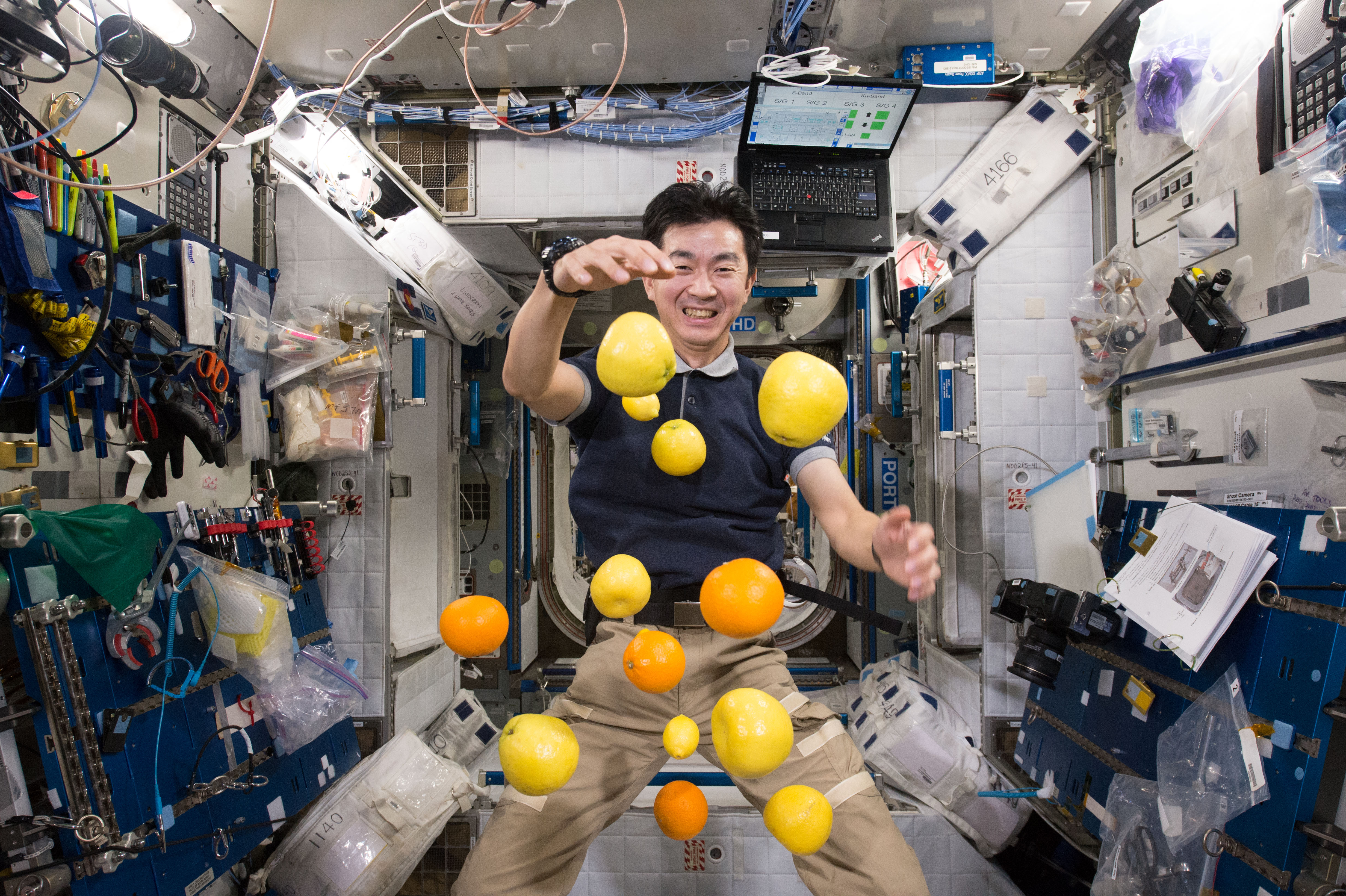 Japan Aerospace Exploration Agency (JAXA) astronaut Kimiya Yui corrals the supply of fresh fruit that arrived on the Kounotori 5 H-II Transfer Vehicle (HTV-5.) Visiting cargo ships often carry a small cache of fresh food for crew members aboard the International Space Station.